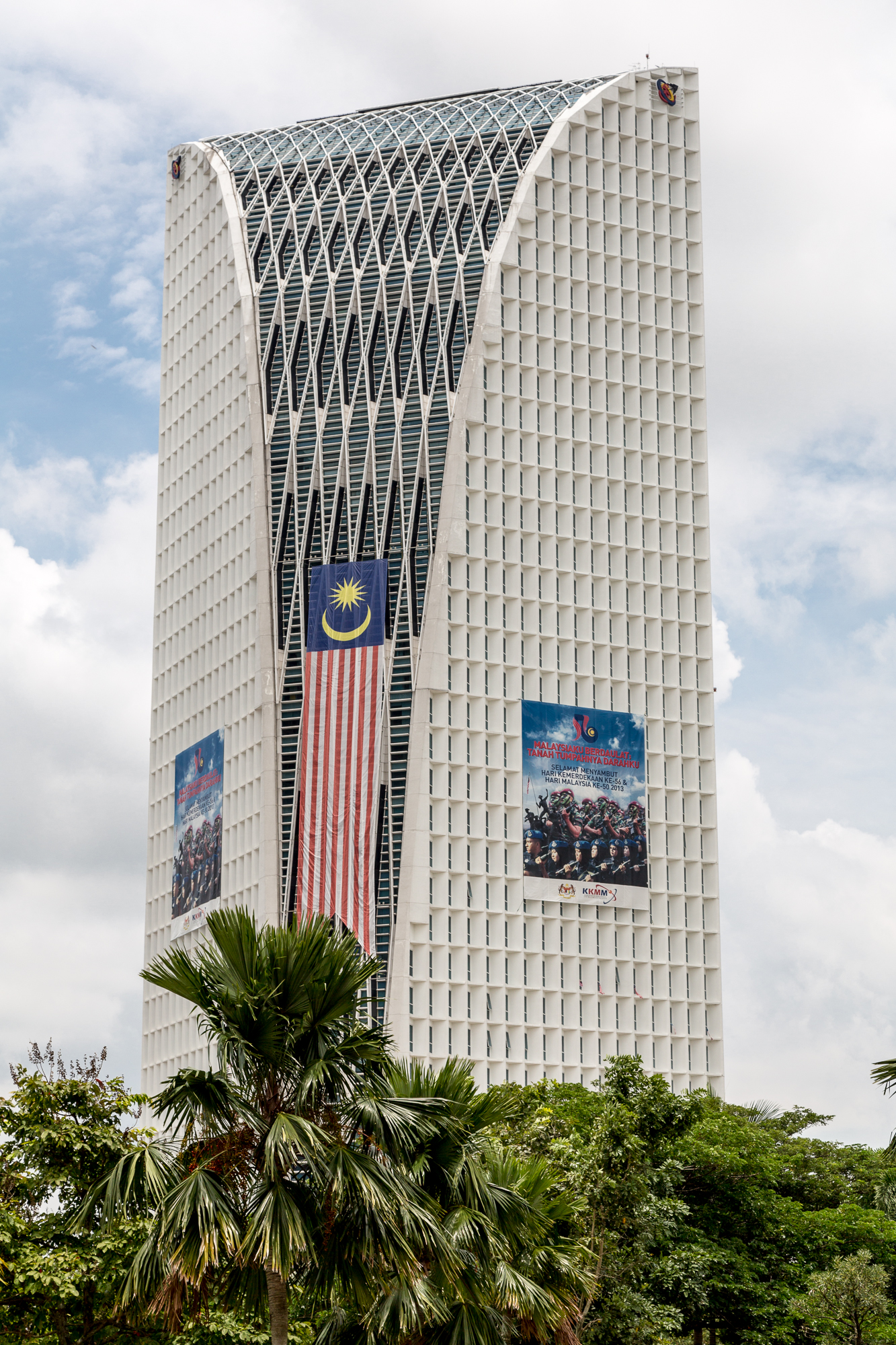 Putrajaya, Malaysia: Kementerian Komunikasi dan Multimedia (Ministry of Communication and Multimedia; KKMM)